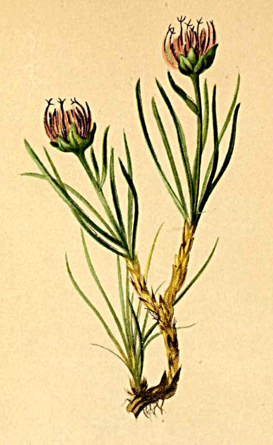 Phyteuma hemisphaericum